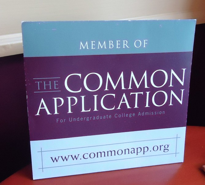 Sign in a lounge in the admissions office of a college in Pennsylvania. The common application has expedited the process of applying to many colleges.